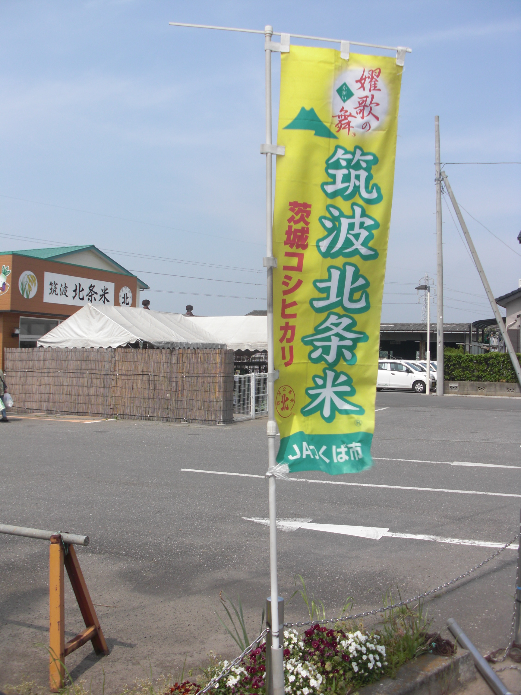 This is a banner of the Tsukuba-Hojo Rice. Tsukuba-Hojo Rice is a brand rice in Ibaraki prefecture, Japan.